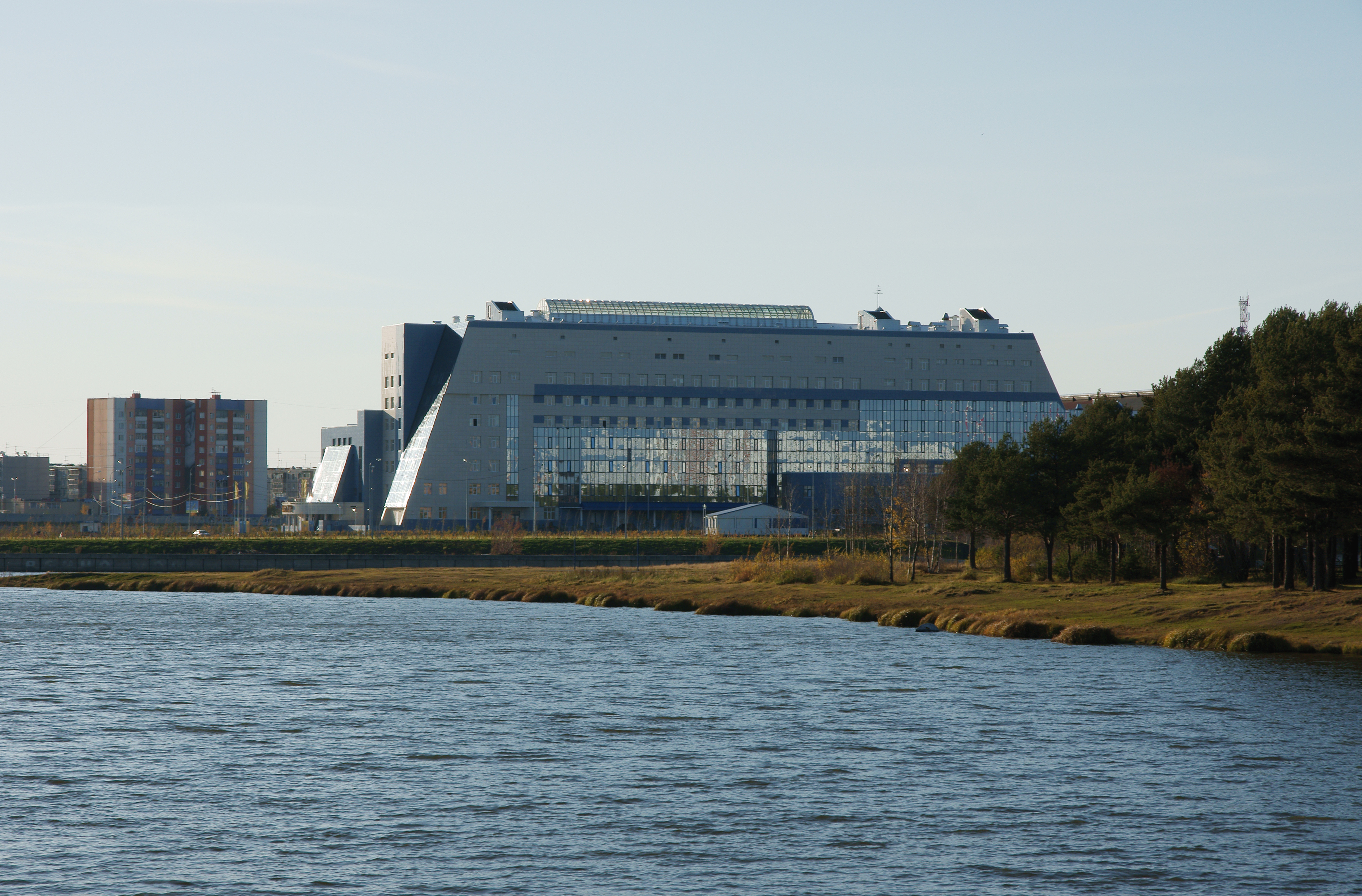 Surgut, Russia. The Saima park, Surgut State University